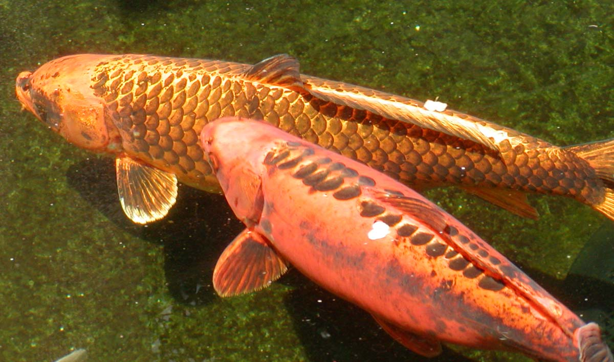 Photo of two koi showing different scale patterns